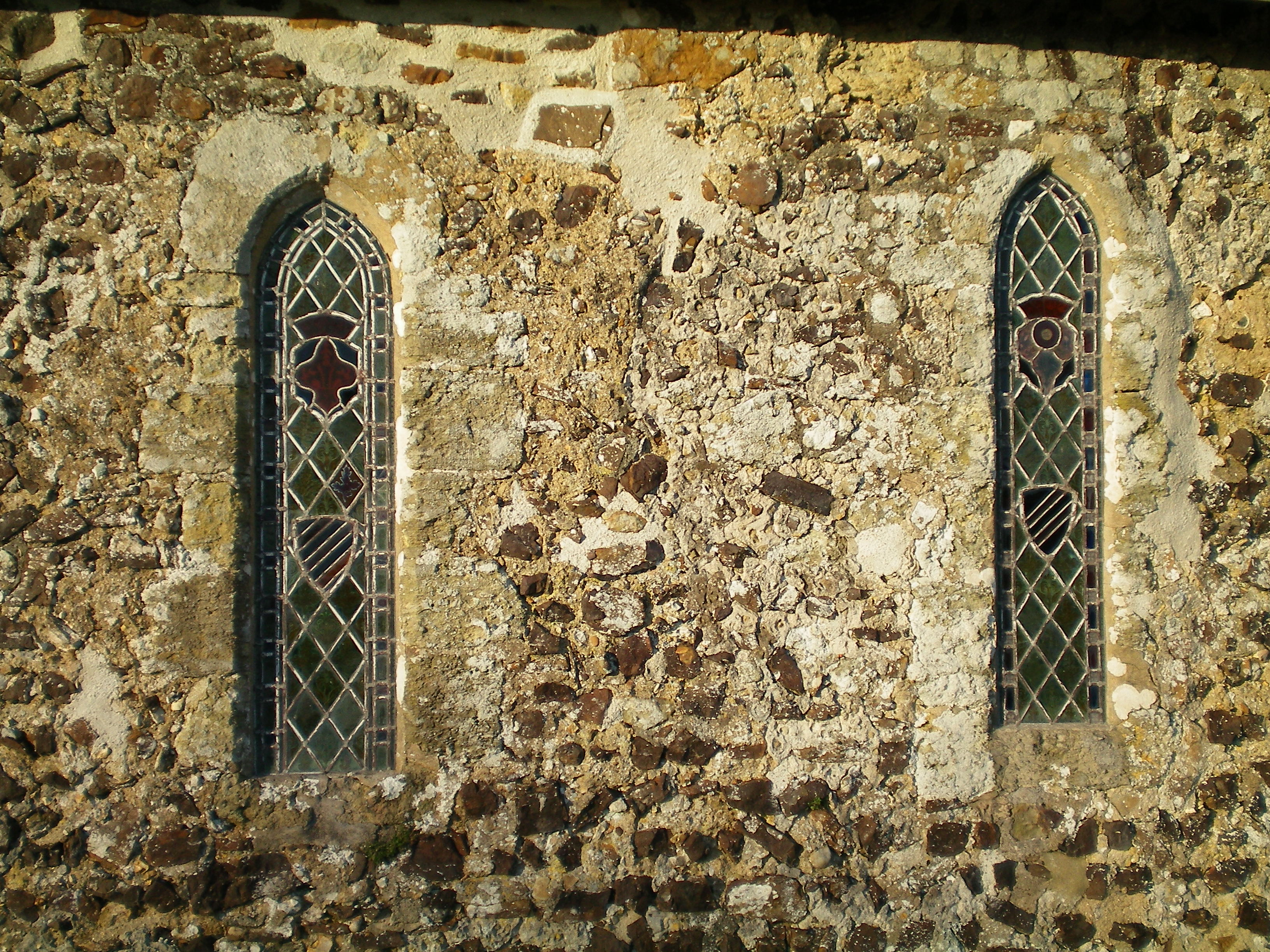 Windows at Greatham Church, West Sussex, England.